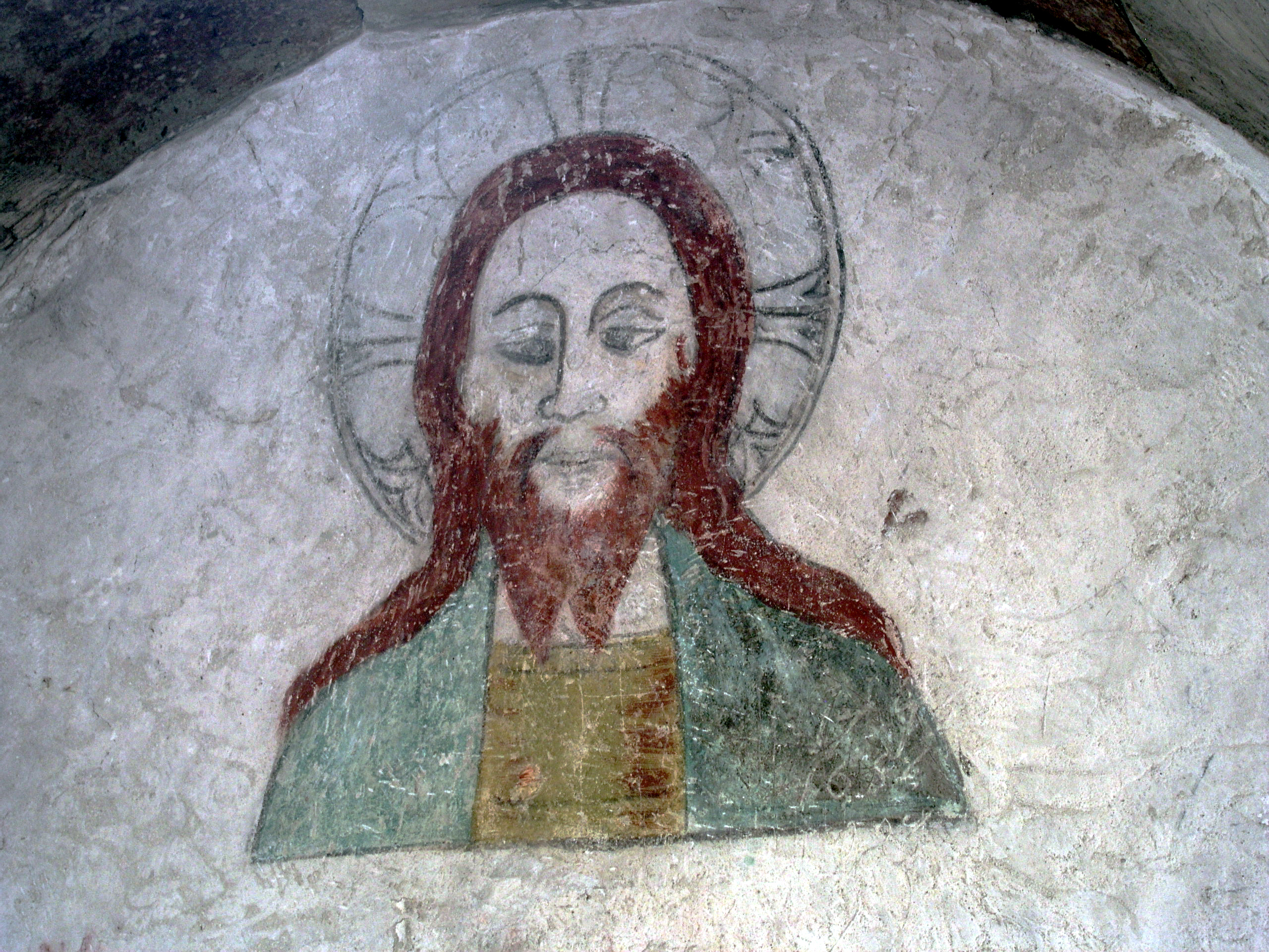 Barlingbo church, Gotland, Sweden